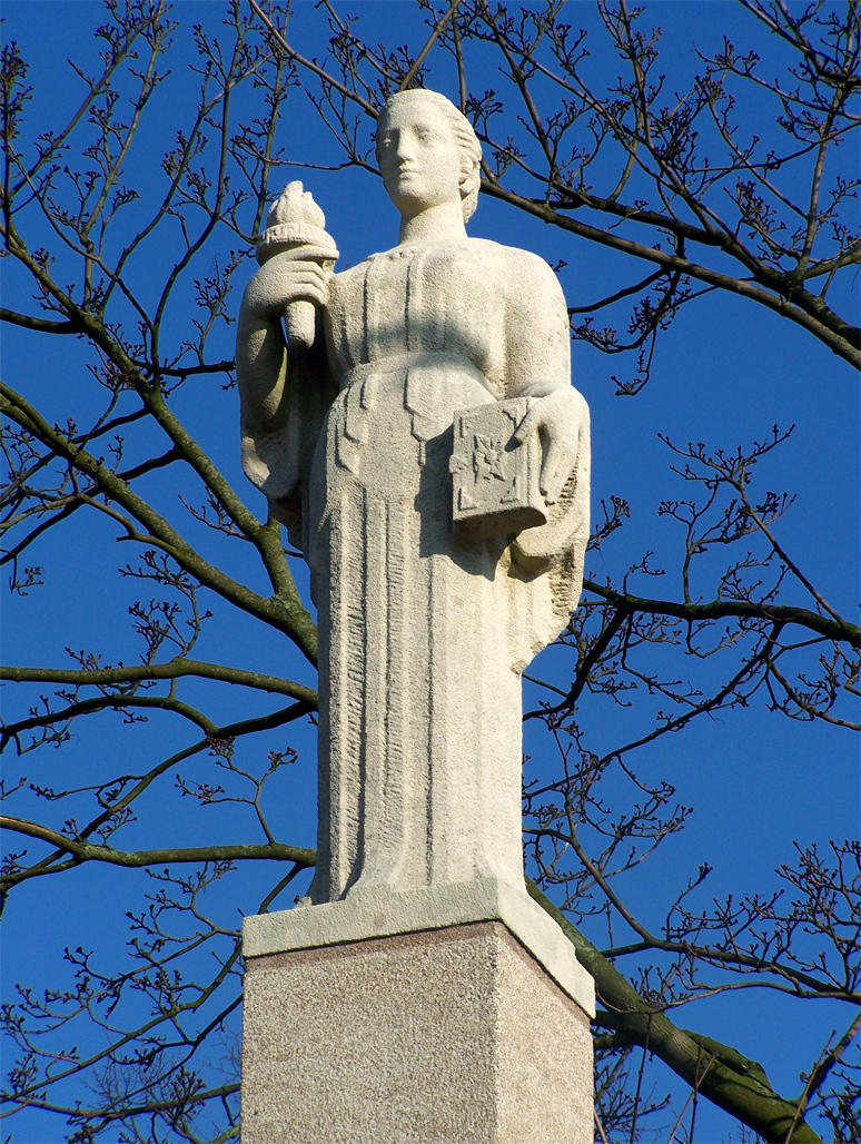 statue Symbool van Wijsheid (Symbol of wisdom) by Pieter d'Hont in 1943, placed only in 1951, because the Spinozabridge was not finished yet. It was his first assignment from the city of Utrecht.